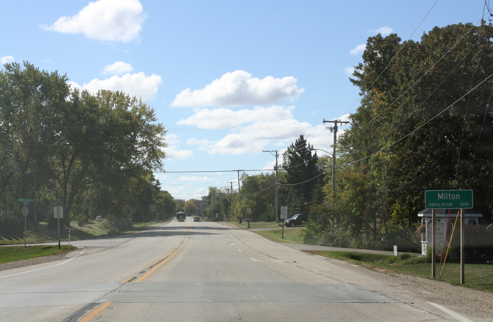 Looking south at the sign for Milton, Wisconsin along Wisconsin Highway 26.